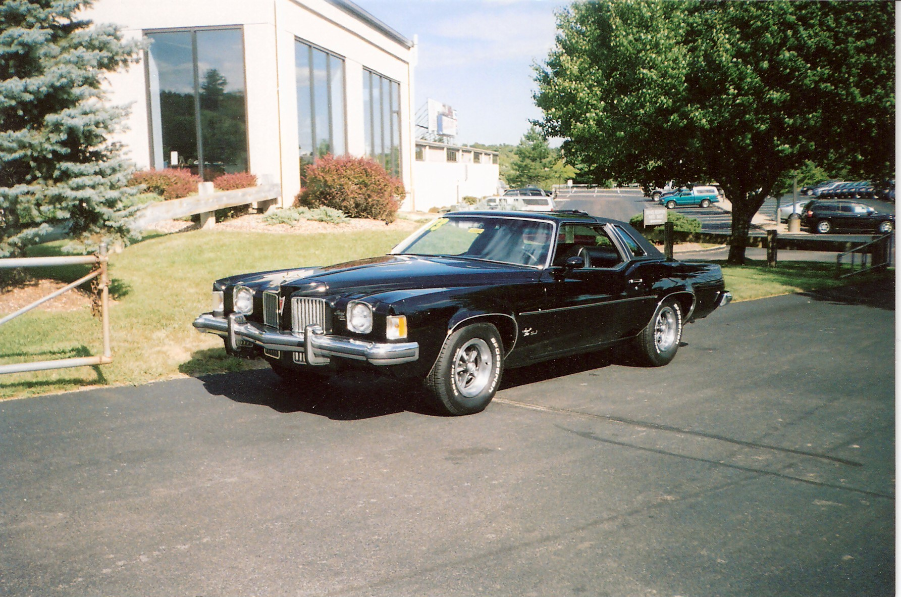 1973 Pontiac Grand Prix that I photographed in Hanover, Massachusetts.